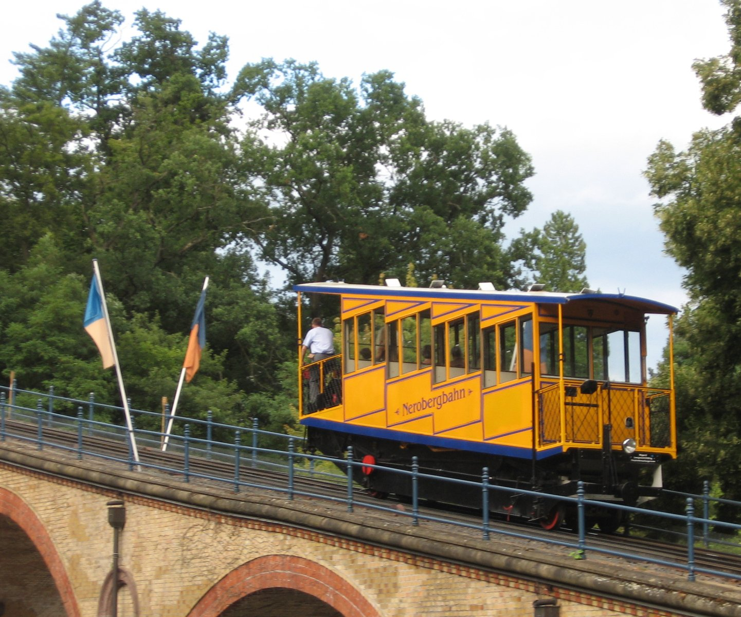 Neroberg near Wiesbaden - Germany / Hesse